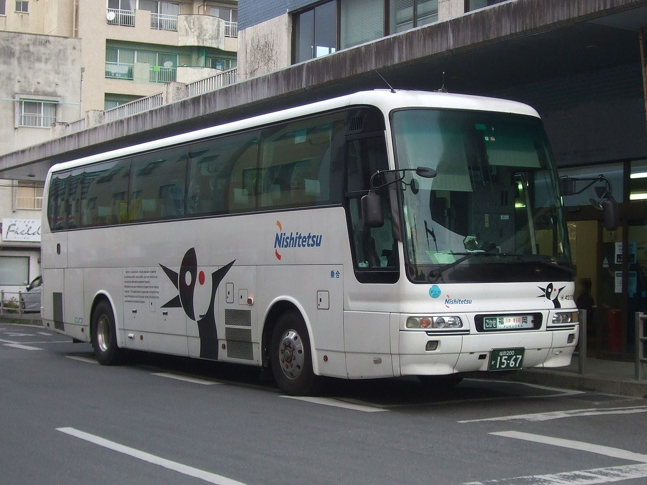 Nishitetsu highway bus "Gokase". Company:Nishi-Nippon Railroad Use:transit bus (highway bus) Belongs to:Hakata Depot Car license:FOF200 KA 1567 Code:4202 Chassis manufacturer:Mitsubishi Motors Type:Mitsubishi Fuso Aero Queen Coachbuilder:Mitsubishi Fuso Bus Manufacturing Location:Nobeoka Bus Center, Nobeoka City, Miyazaki, Japan.